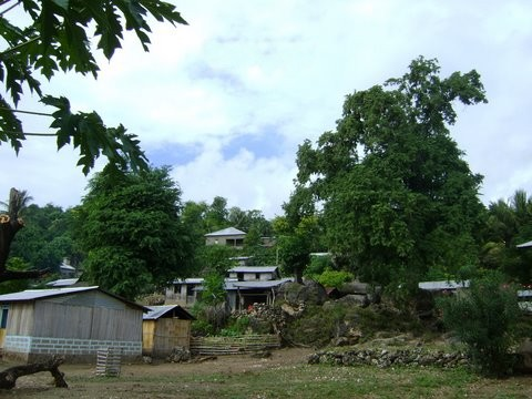 Com Village